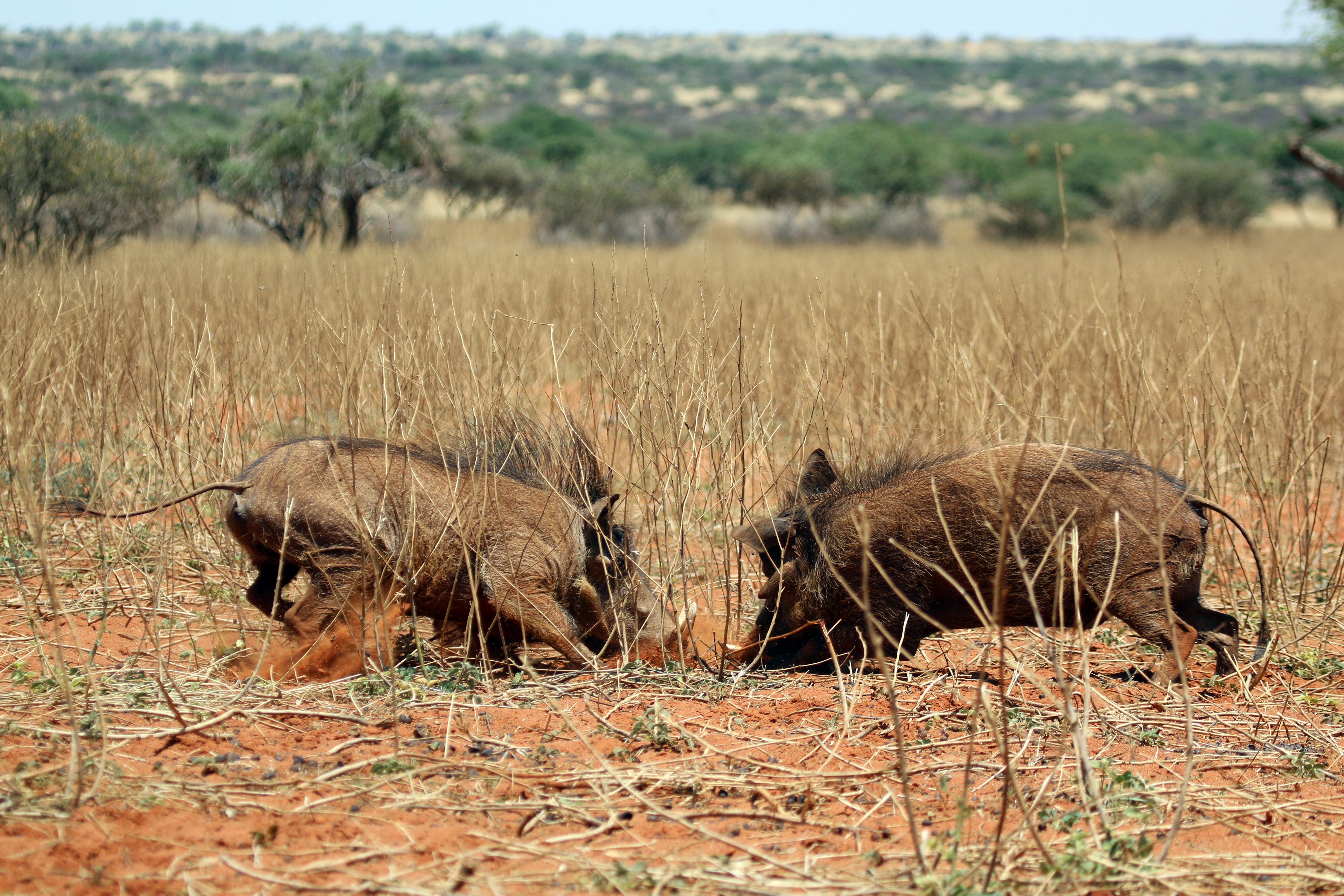 Warthogs (Phacochoerus africanus) males, Tswalu Kalahari Reserve, South Africa